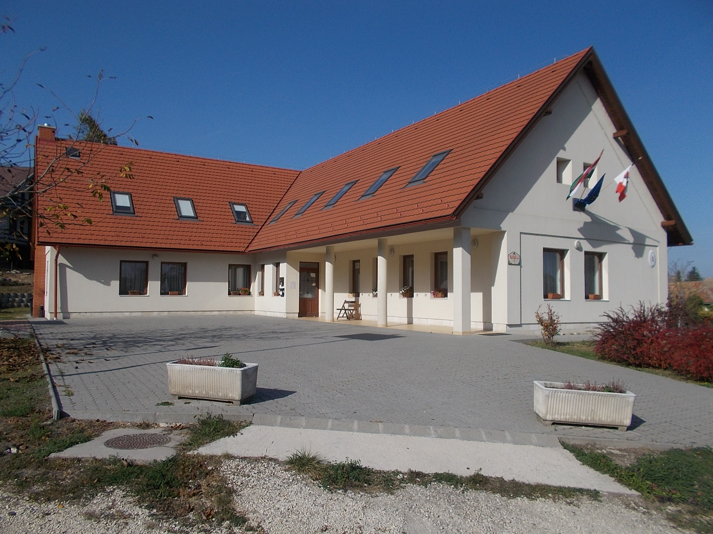 Magyar-kút Library. - 1 Alcsúti út (Road 8106) and Ötház utca corner, Etyek, Fejér County, Hungary.